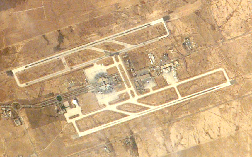 Queen Alia International Airport, Jordan